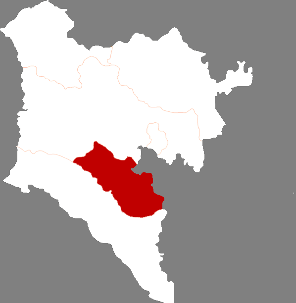 Locator map of Tuquan County in Hinggan League, Inner Mongolia, China